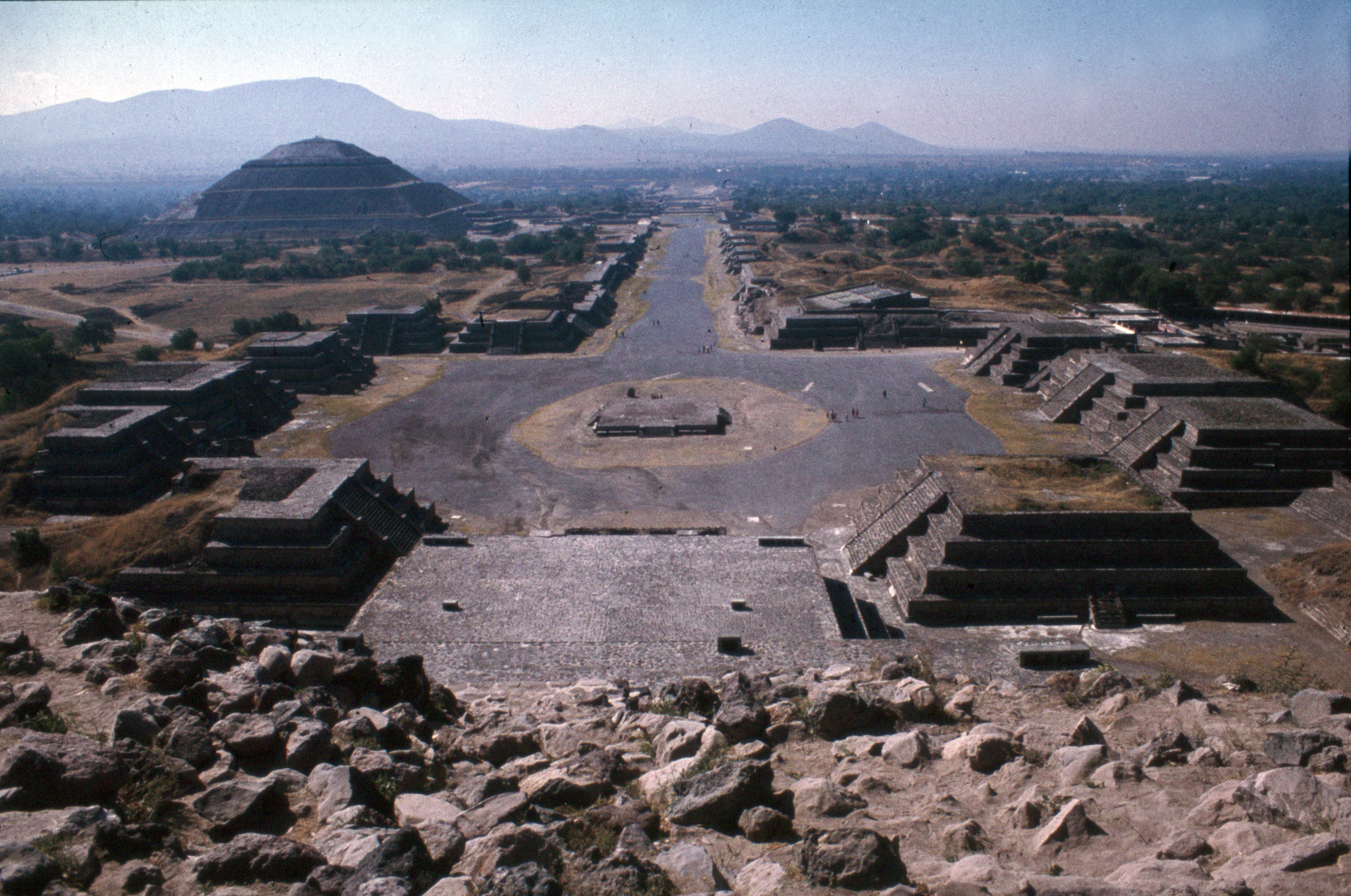 Teotihuacán